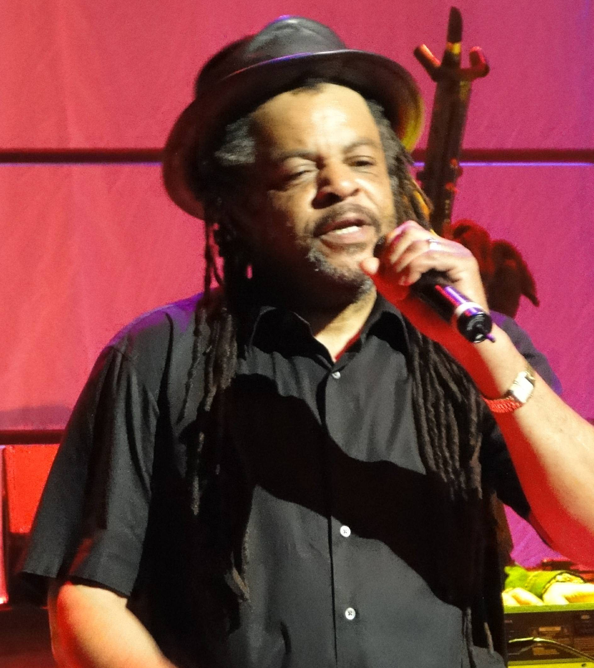 Astro with UB40 at Birmingham Symphony Hall, October 2010